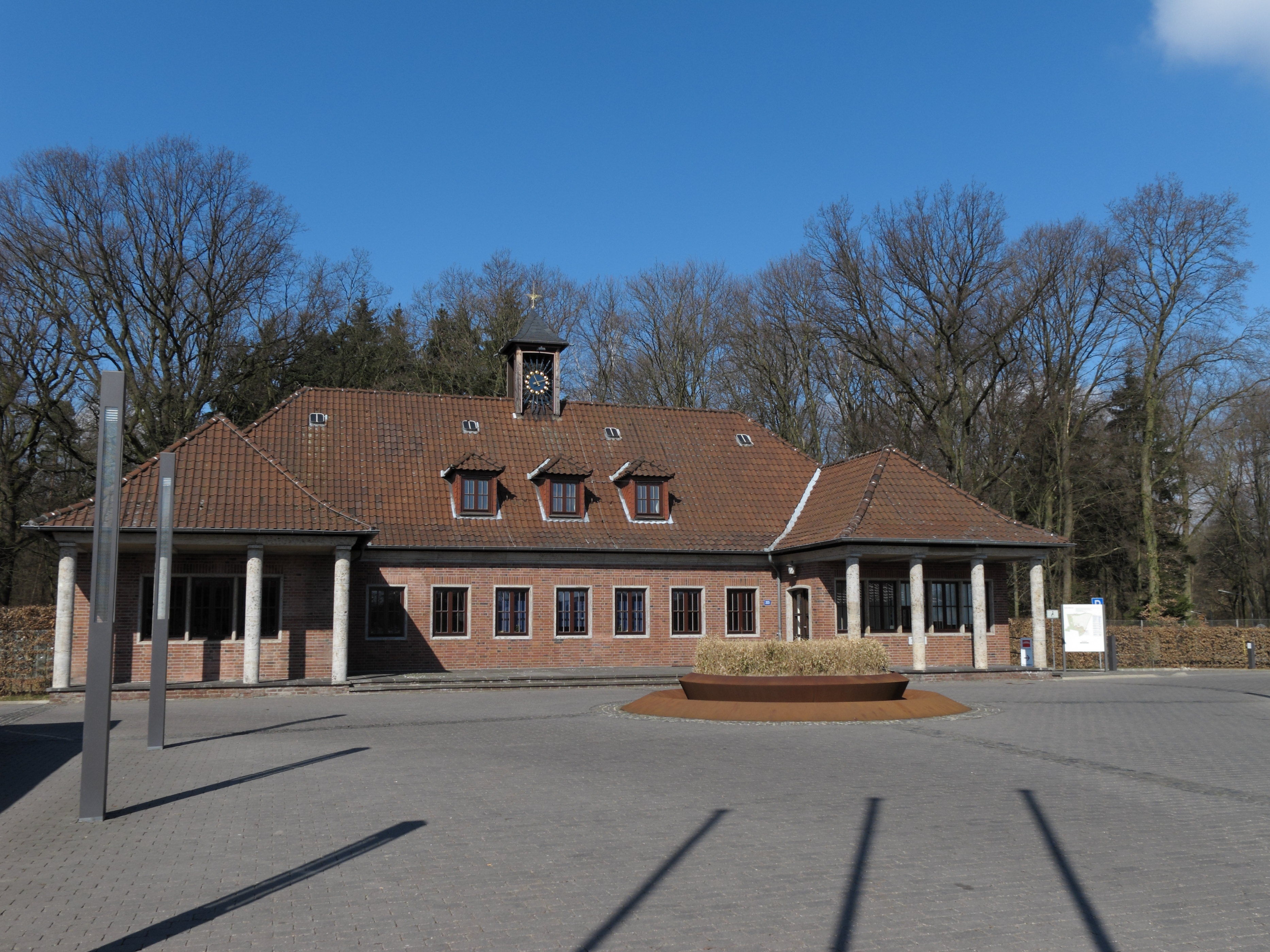 Brunswick, Germany, main entrance of the former Federal Agricultural Research Centre